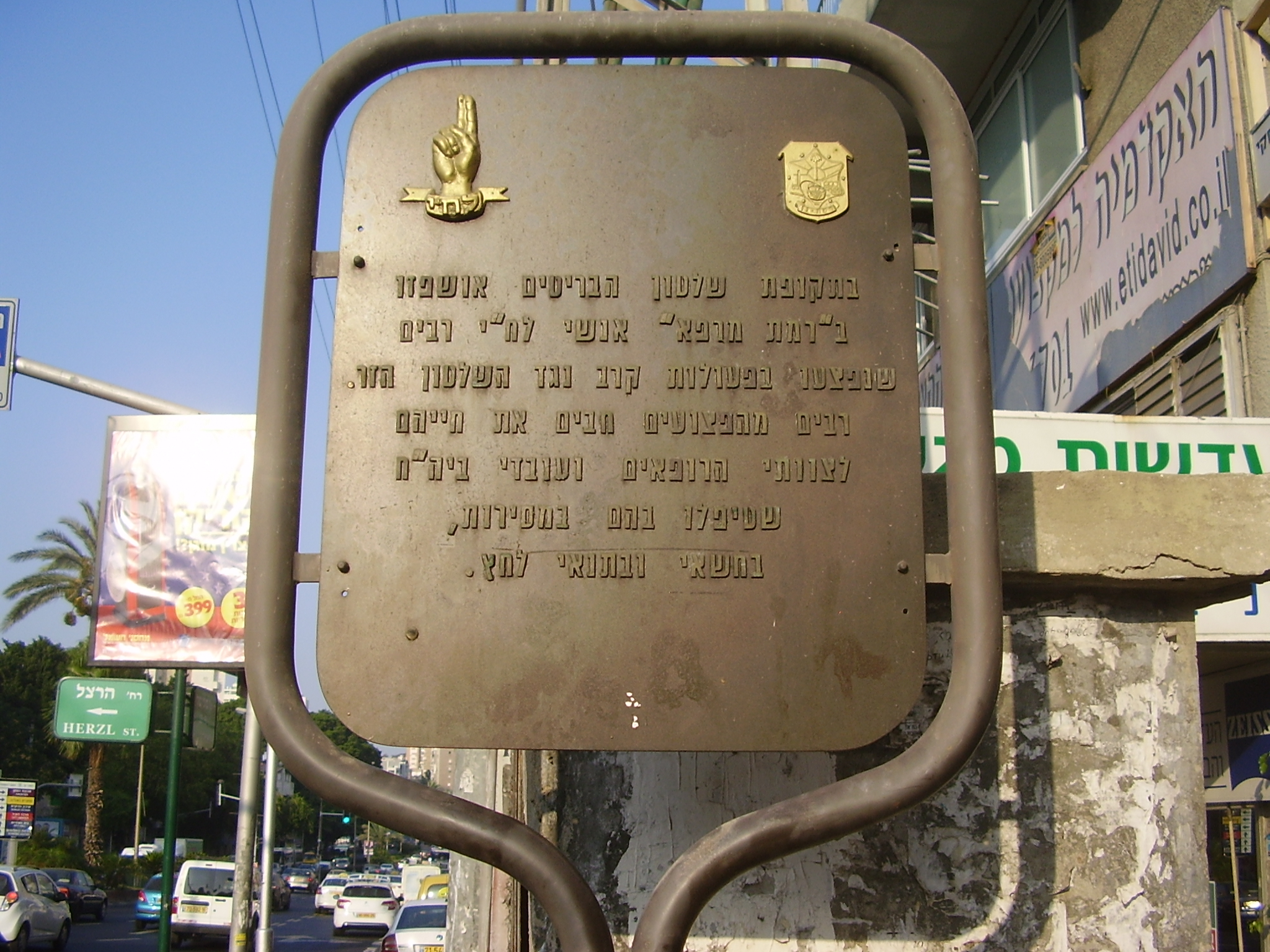 lehi commemoration plaque in ramat gan, israel שלט זיכרון של לח"י ברחוב ז'בוטינסקי ברמת גן, ליד רמת מרפא